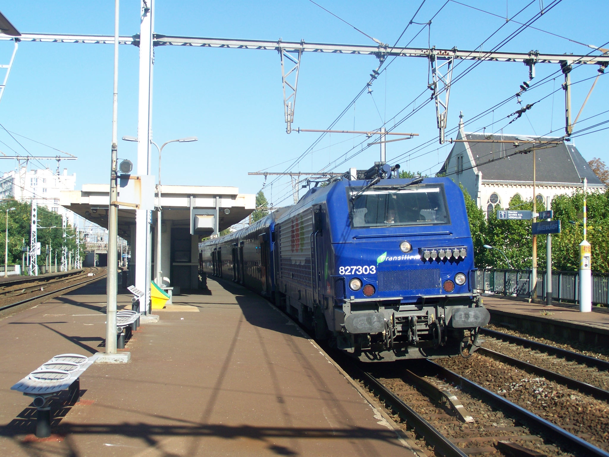 French regional train coming from Paris-Monparnasse and moving towards Rambouillet is waiting at Vanves-Malakoff station.